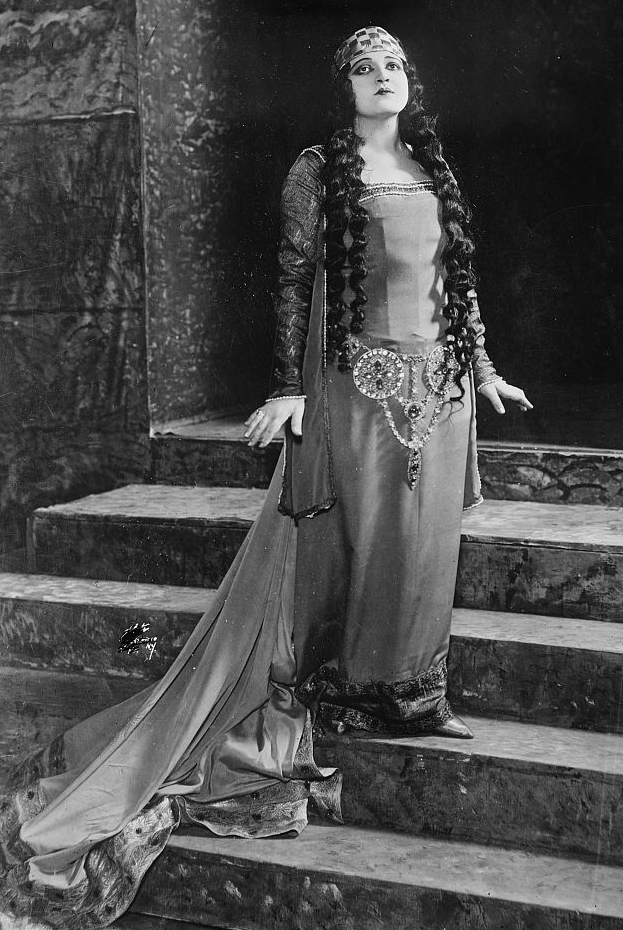 American opera singer Rosa Ponselle (1897-1981) in "Le Roi d'Ys" by Édouard Lalo